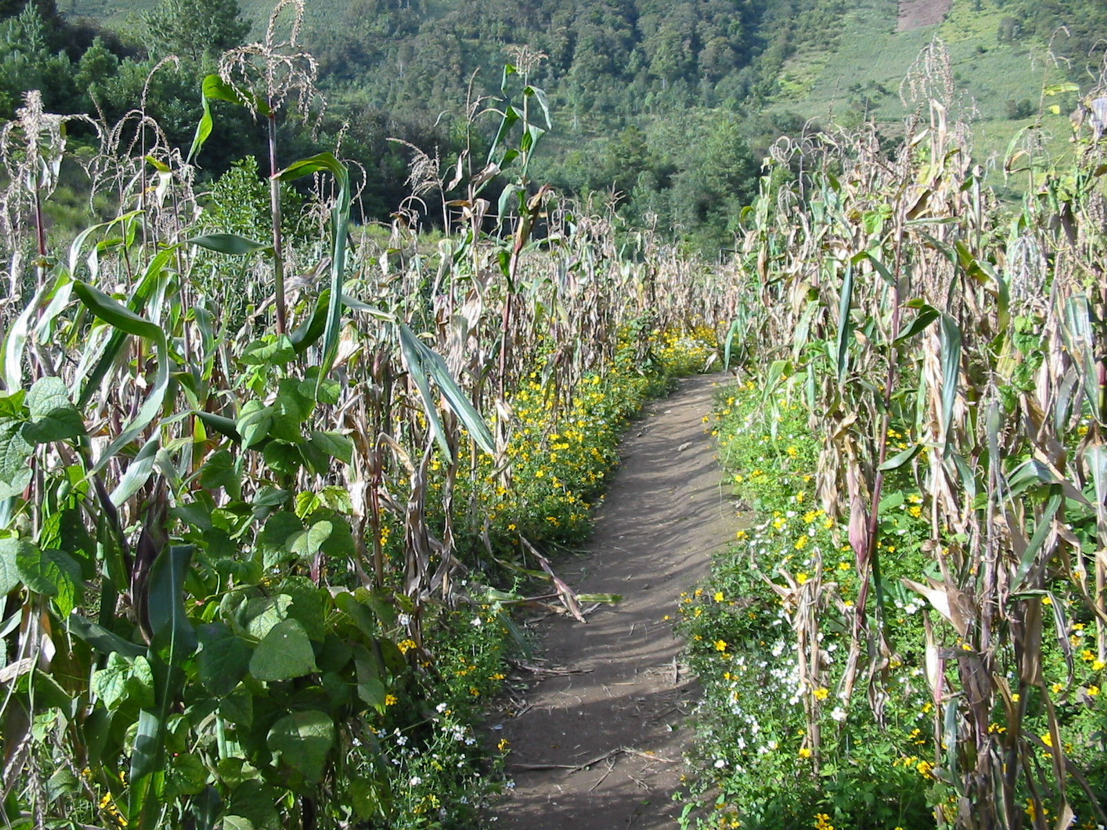 this picture shows a milpa field in K'iche' Guatemala at the south slope of the Cuchumatan mountains. The maize and bean can be seen while the typical sqash is hidden in this picture.